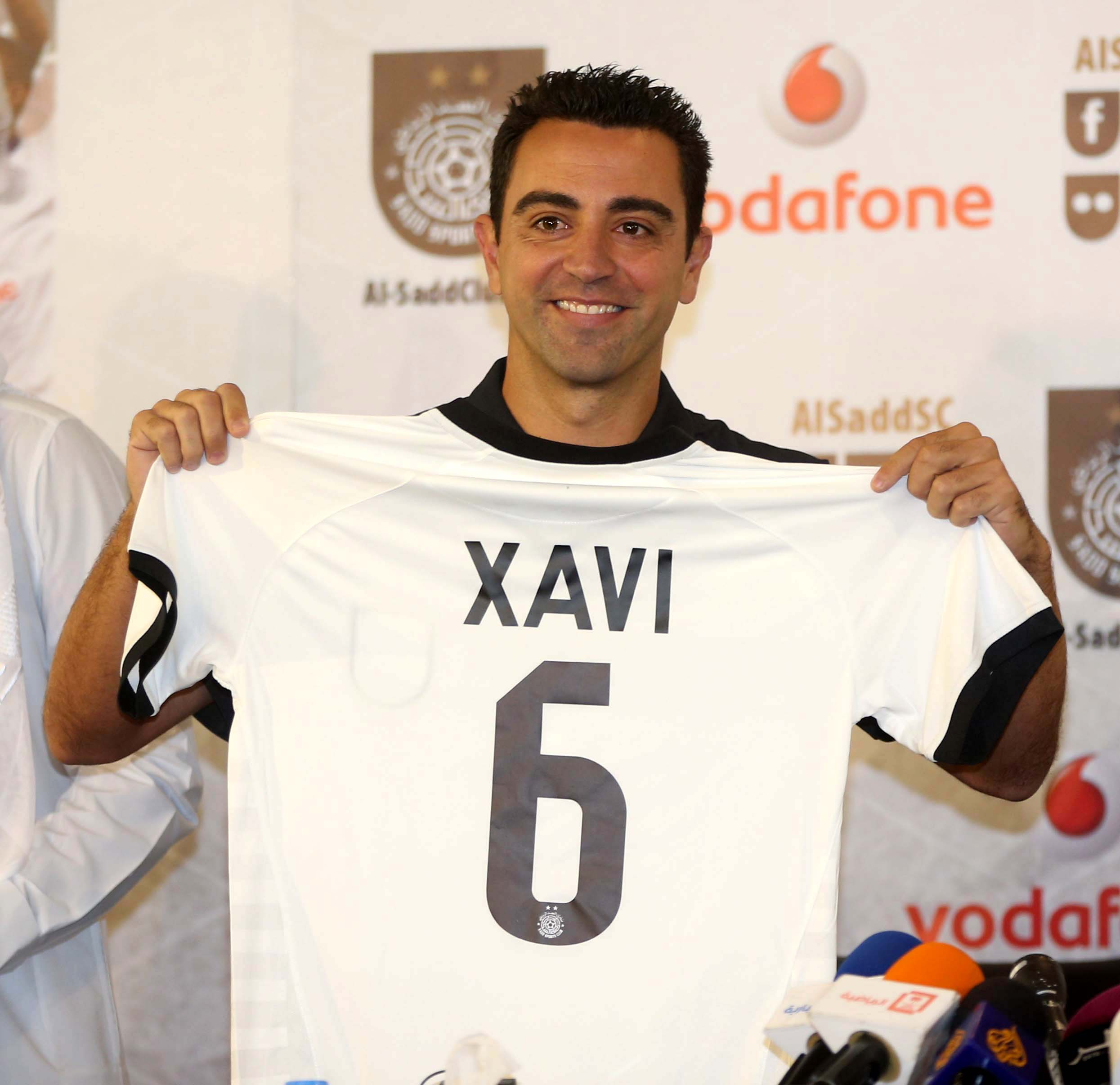 Spanish player Xavi Hernandez displays his N0.6 jersey at the Al Sadd Club in Doha. Pic by Mohan